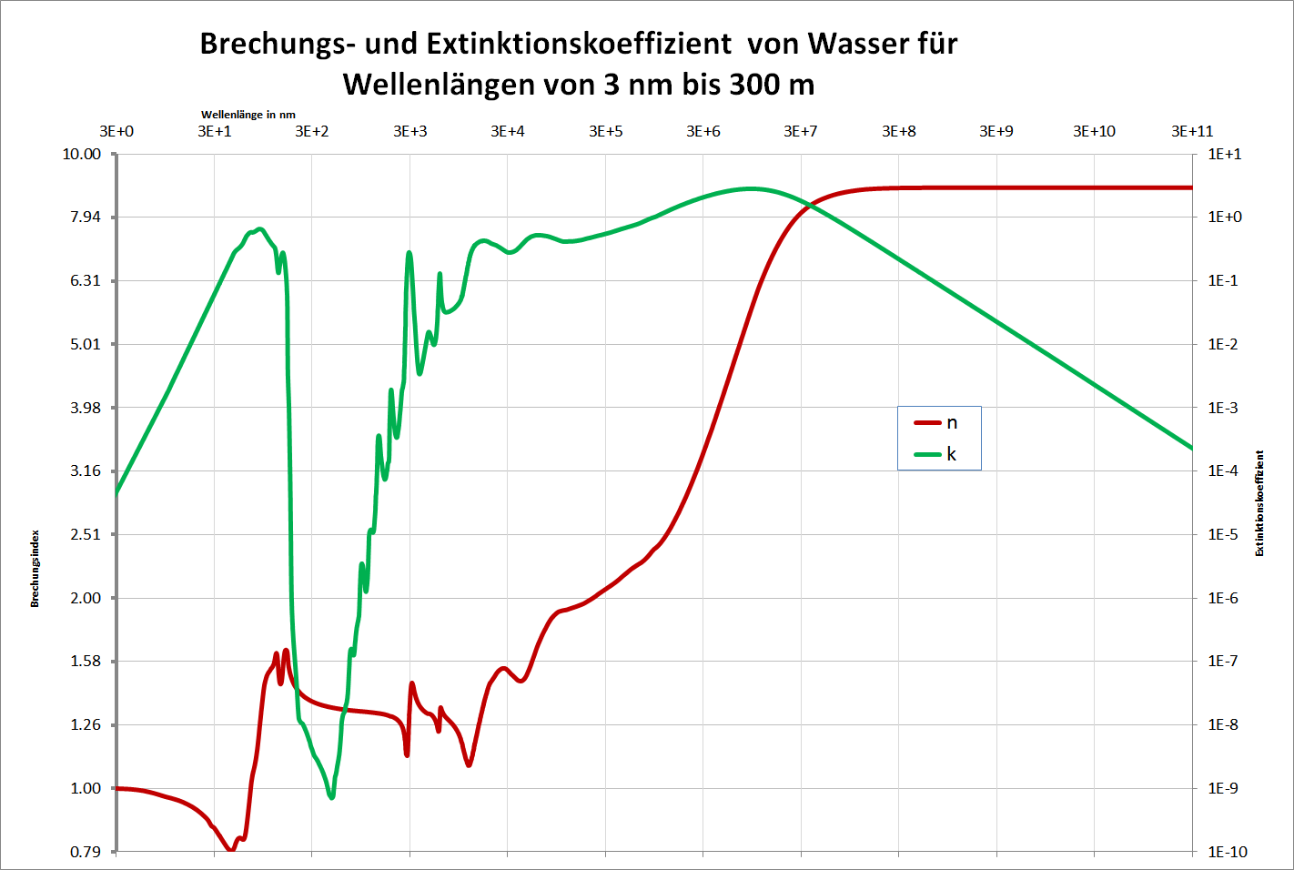 (Complex) Refractive Index of Water between 30 nm and 10 m